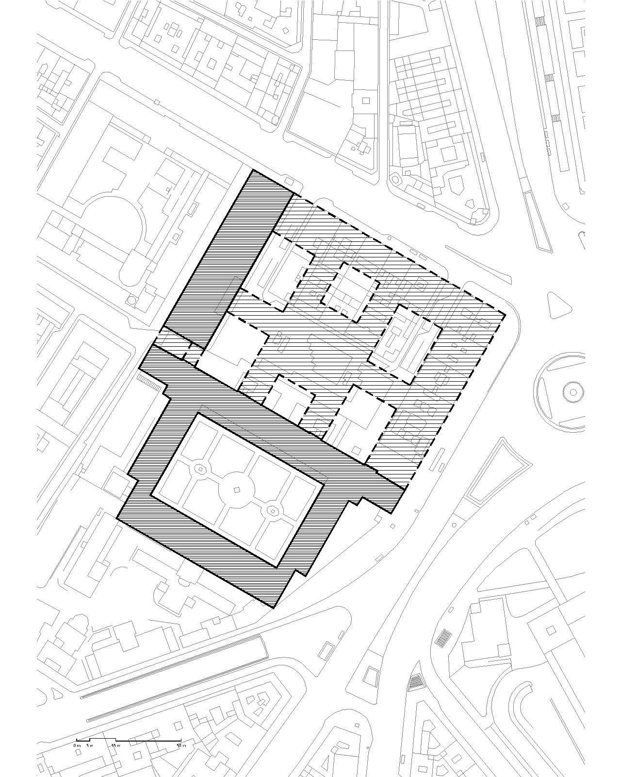 General Plant detailing which part of the draft Sabatini was executed and what was unfinished.